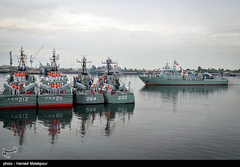 Navy of Iran